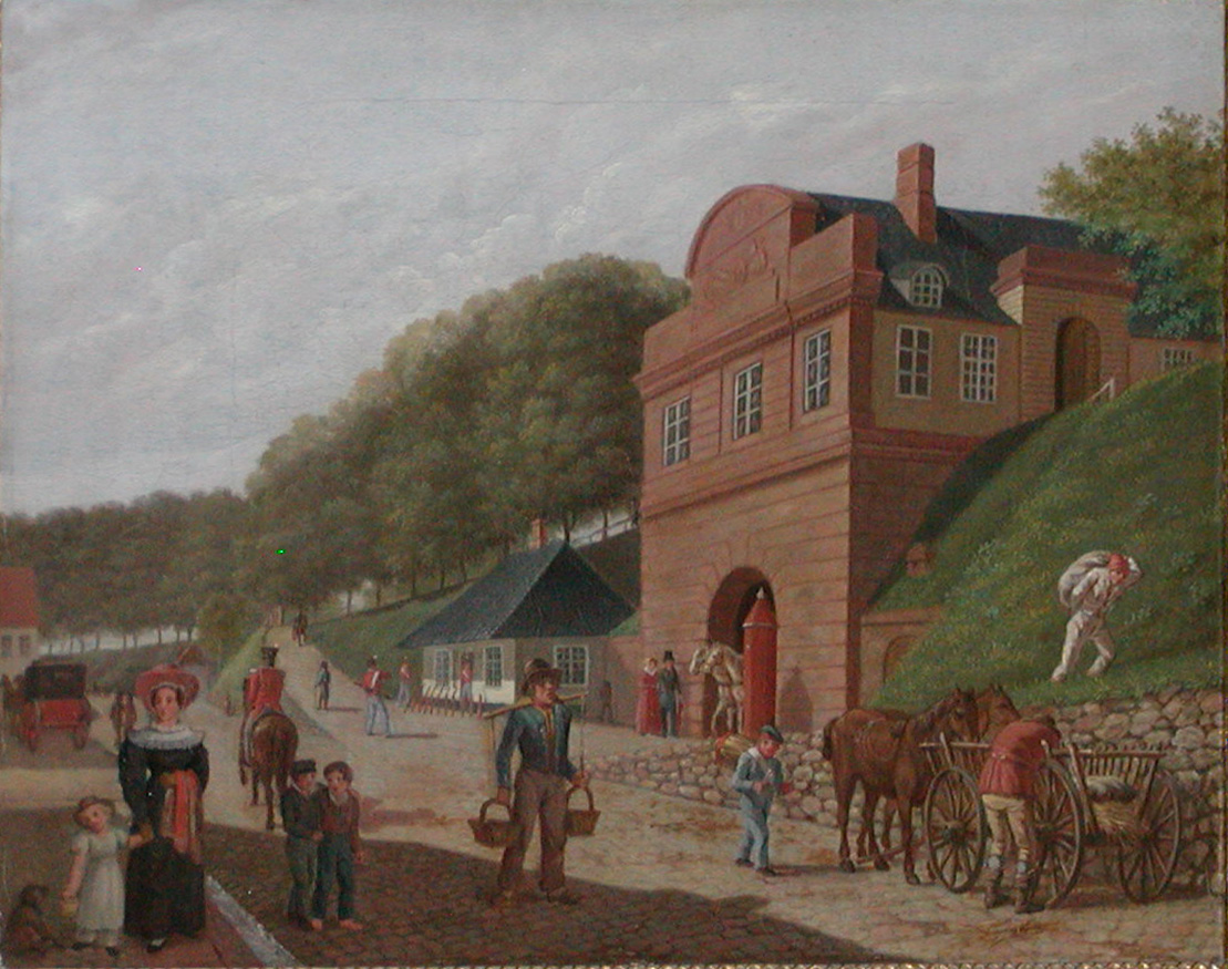 Eckersberg made a series of illustrations showing the streets and squares of Copenhagen. Source: Emil Hannover, Maleren C.W. Eckersberg, page 316.